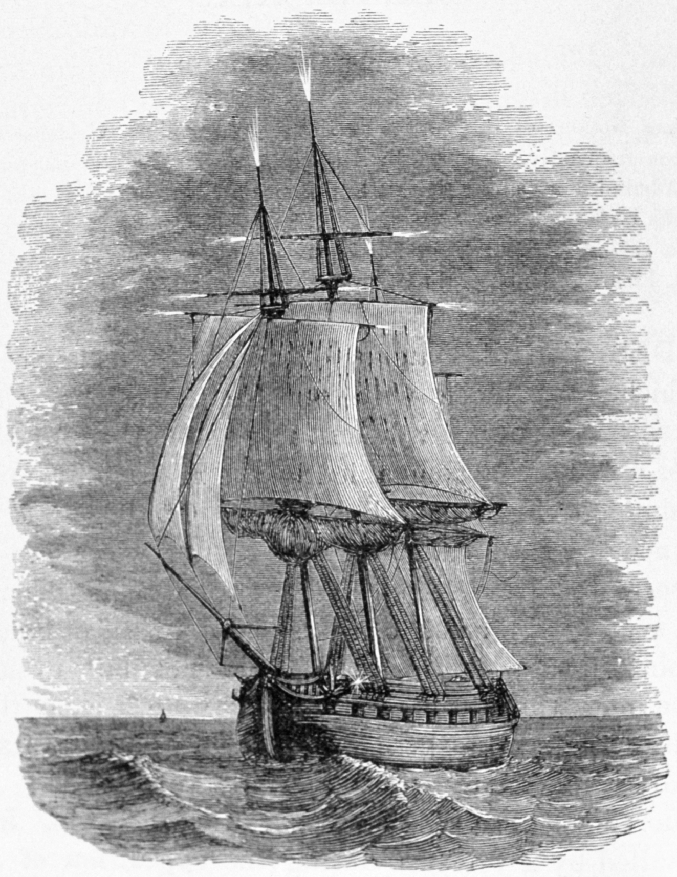 St. Elmo’s fire on Masts of Ship at Sea